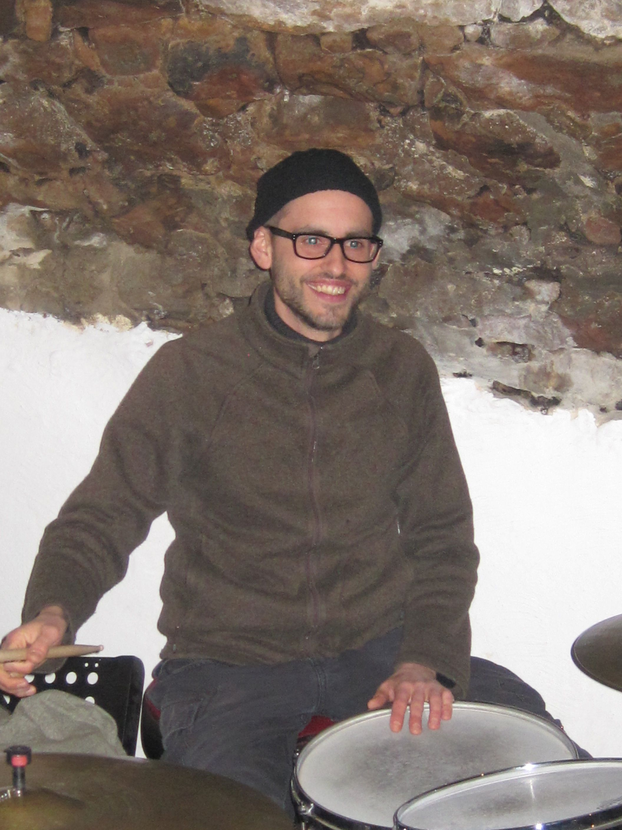 Swiss jazz drummer Dominic Egli in 2015 at jazz club Cavete Marburg